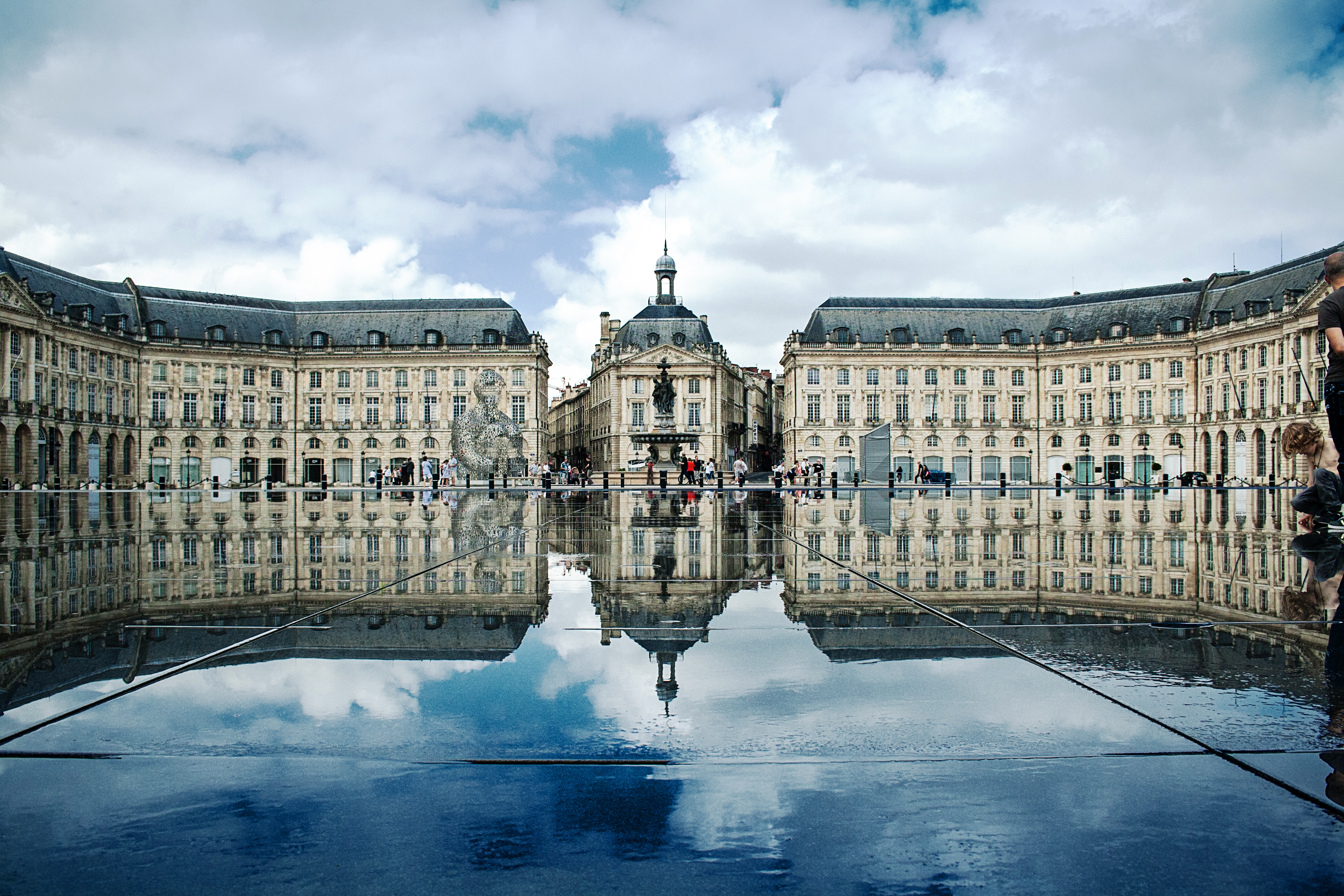 Place de la Bourse with the Hotel and Palais de la Bourse in Bordeaux. In front the Miroir d'eau can be seen.